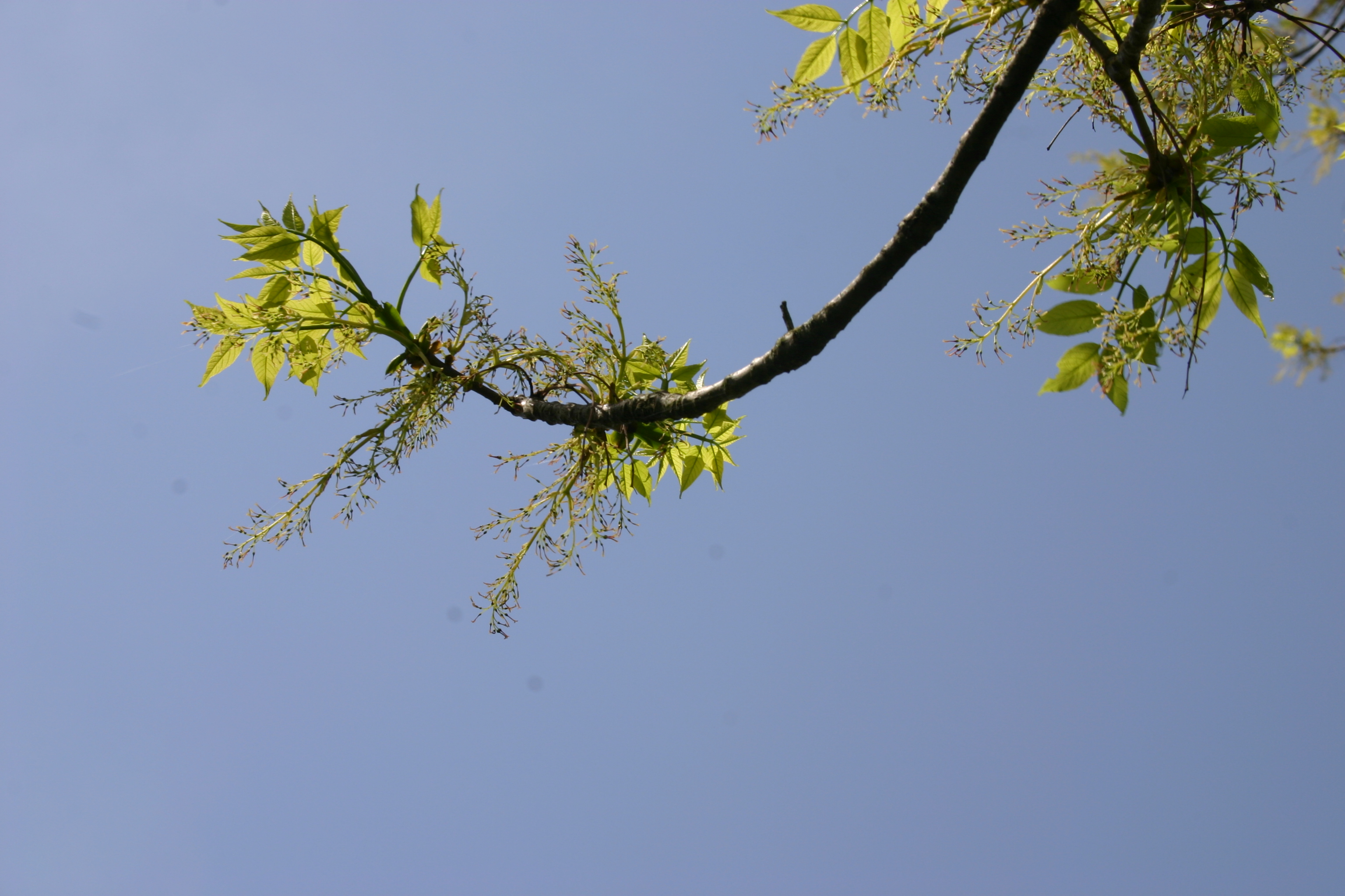 flowers of Fraxinus americana